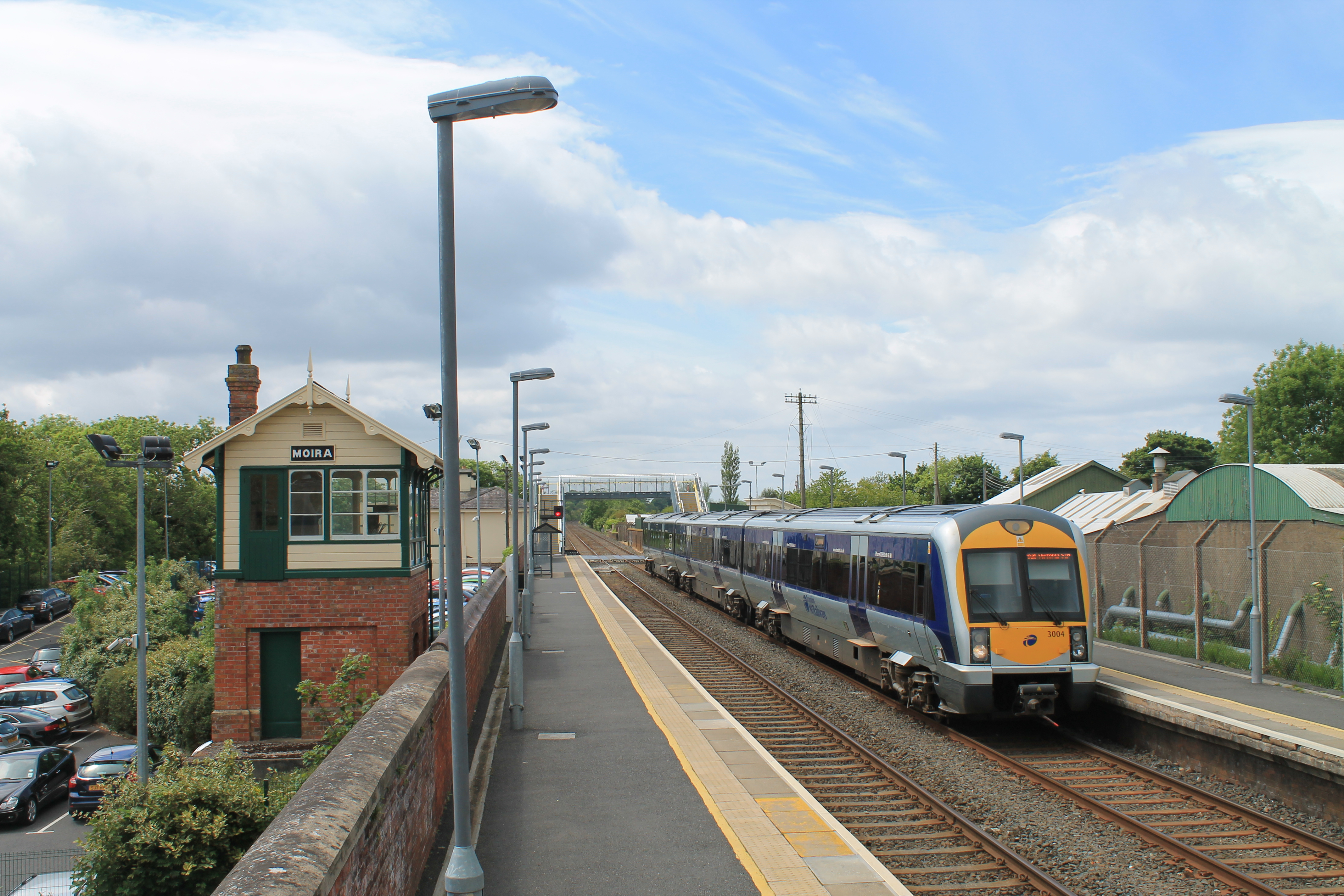 NIR C3K at Moira railway station